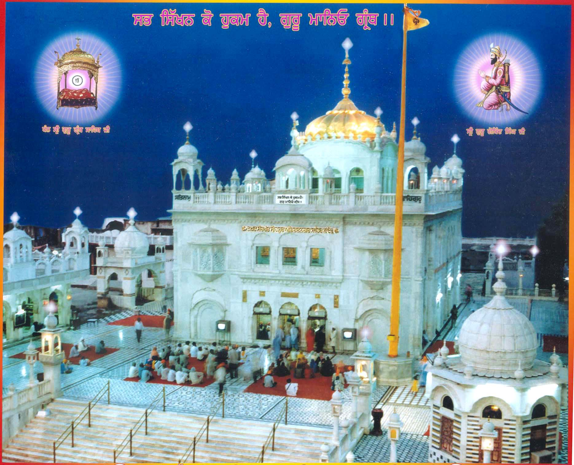 Nanded, Maharashtra, India.